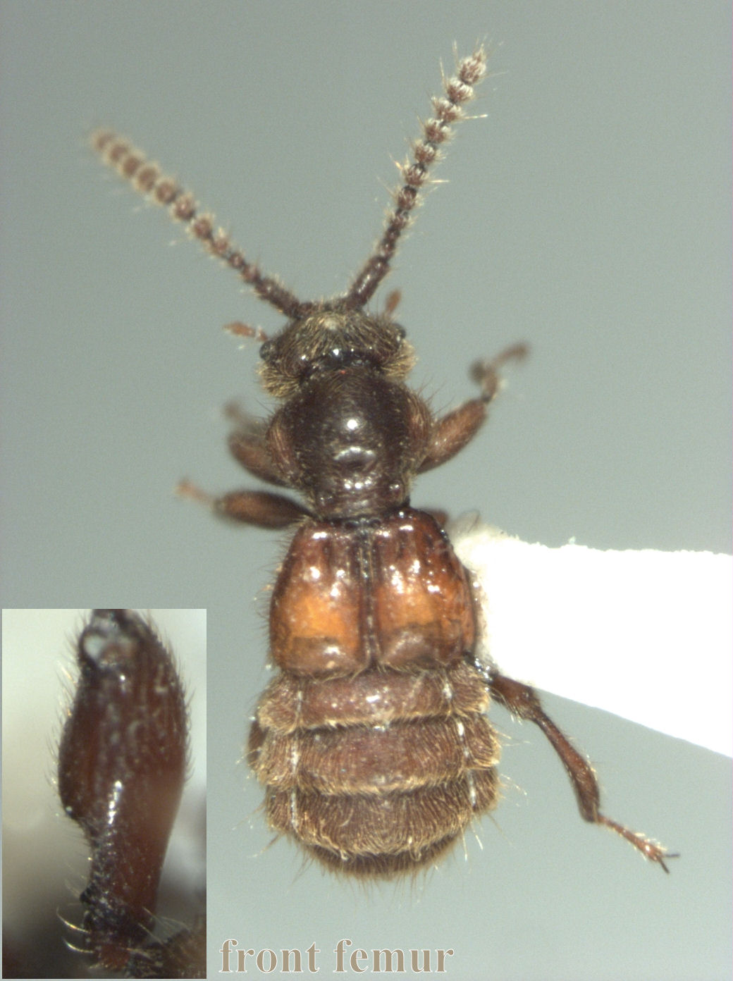 adult Sagola pulchra